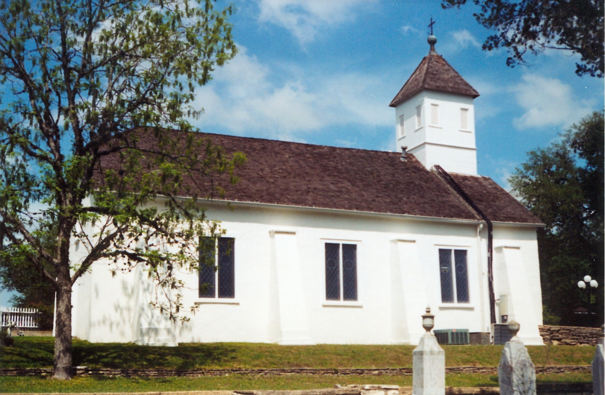 Bethlehem Lutheran Church, Round Top, Texas, USA. Designated a Recorded Texas Historic Landmark in 1965 and listed on the National Register of Historic Places in 1978.